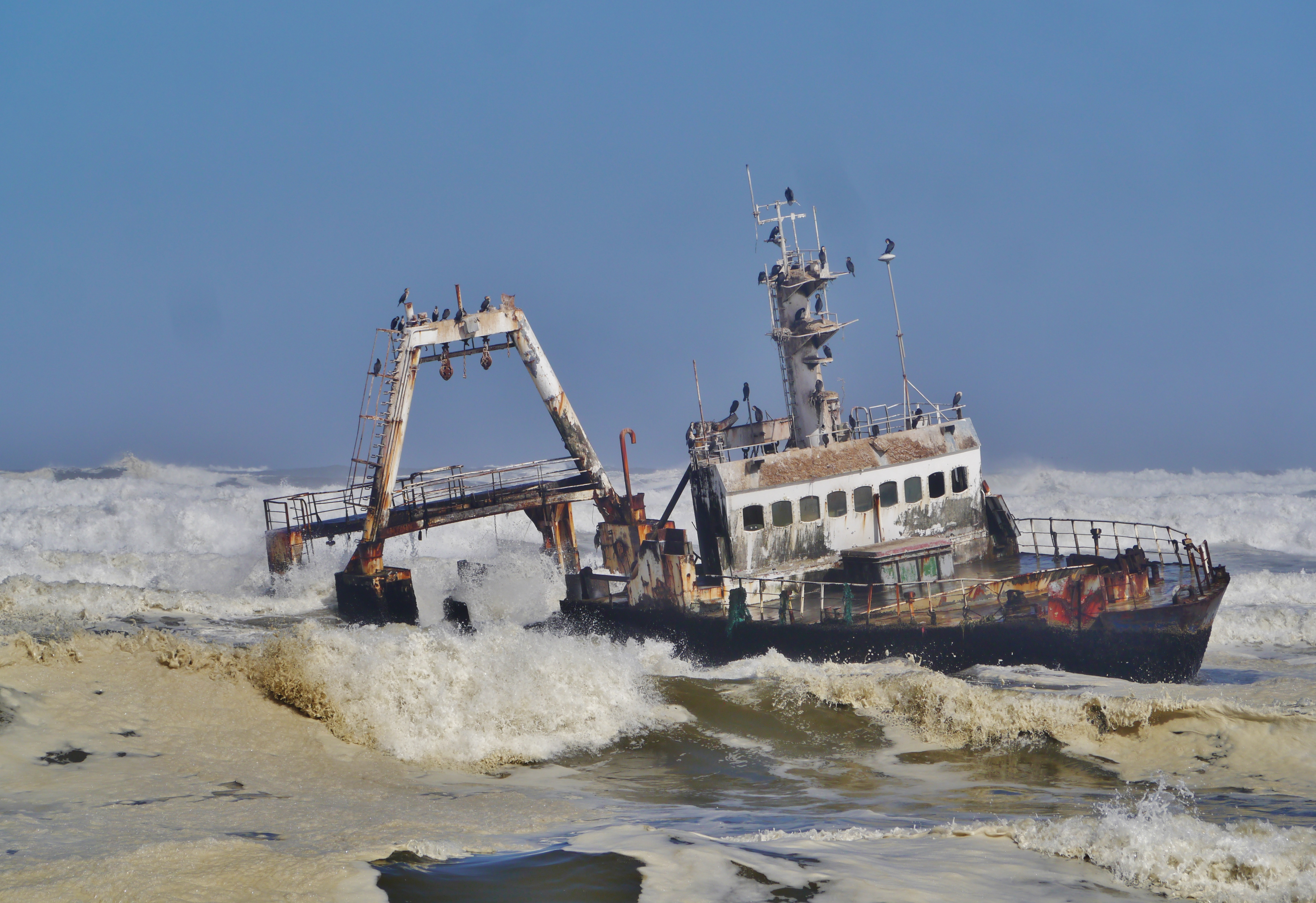 a Shipwreck at the Skeleton Coast National Park, Region of Erongo, Namibia